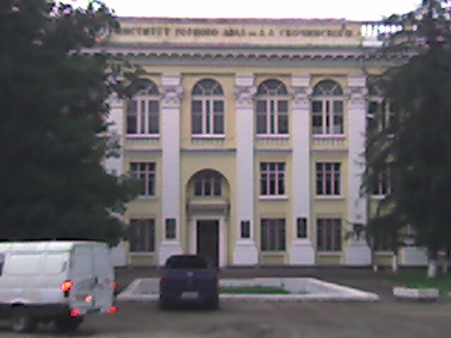 Alexander Skochinsky IGD (Institute of Mining Works) in Lybertsy